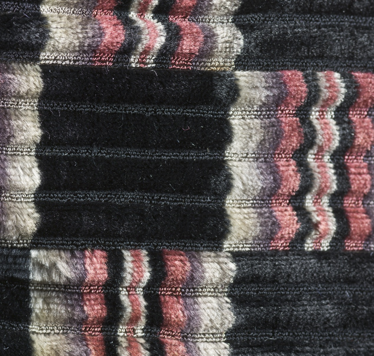 England, circa 1845 Costumes; principal attire (upper body) Silk cut and uncut velvet on twill foundation Center back length: 19 1/2 in. (49.53 cm) Purchased with funds provided by Suzanne A. Saperstein and Michael and Ellen Michelson, with additional funding from the Costume Council, the Edgerton Foundation, Gail and Gerald Oppenheimer, Maureen H. Shapiro, Grace Tsao, and Lenore and Richard Wayne (M.2007.211.819) Costume and Textiles